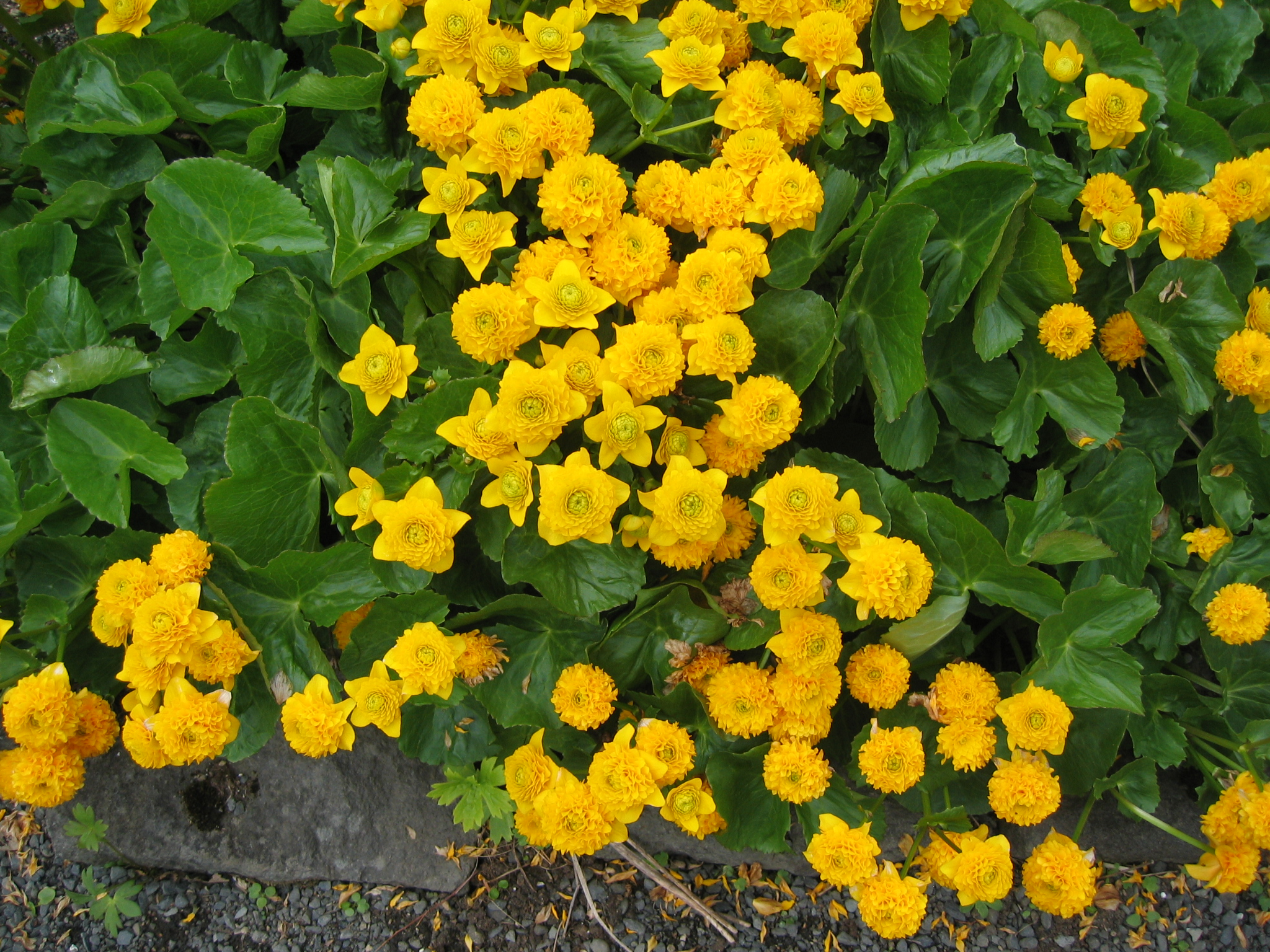 Caltha palustris f. flore pleno; Photo taken in Grasagarður Reykjavíkur the Botanical Garden in Reykjavik, Iceland by Salvör